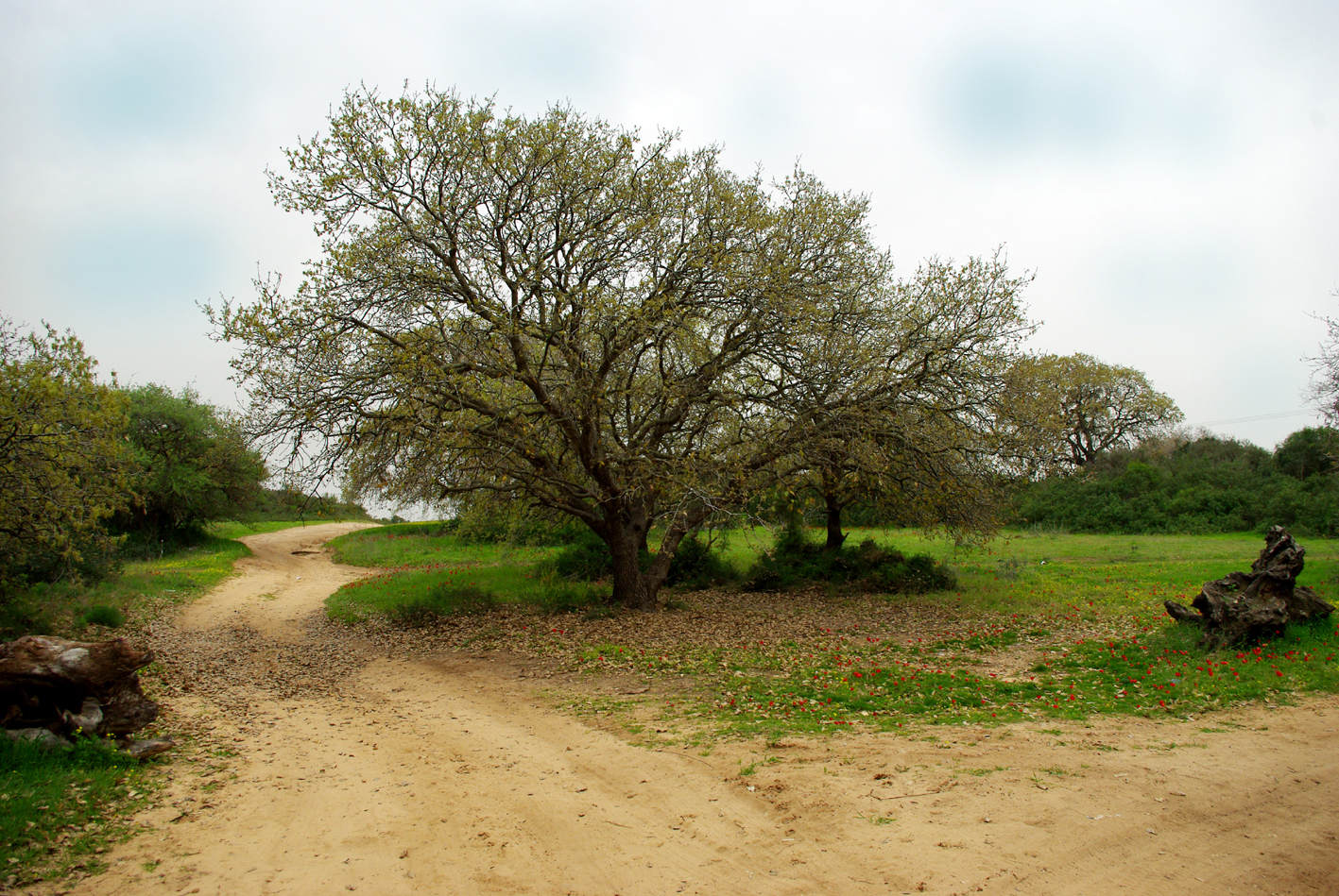 Geography of Israel